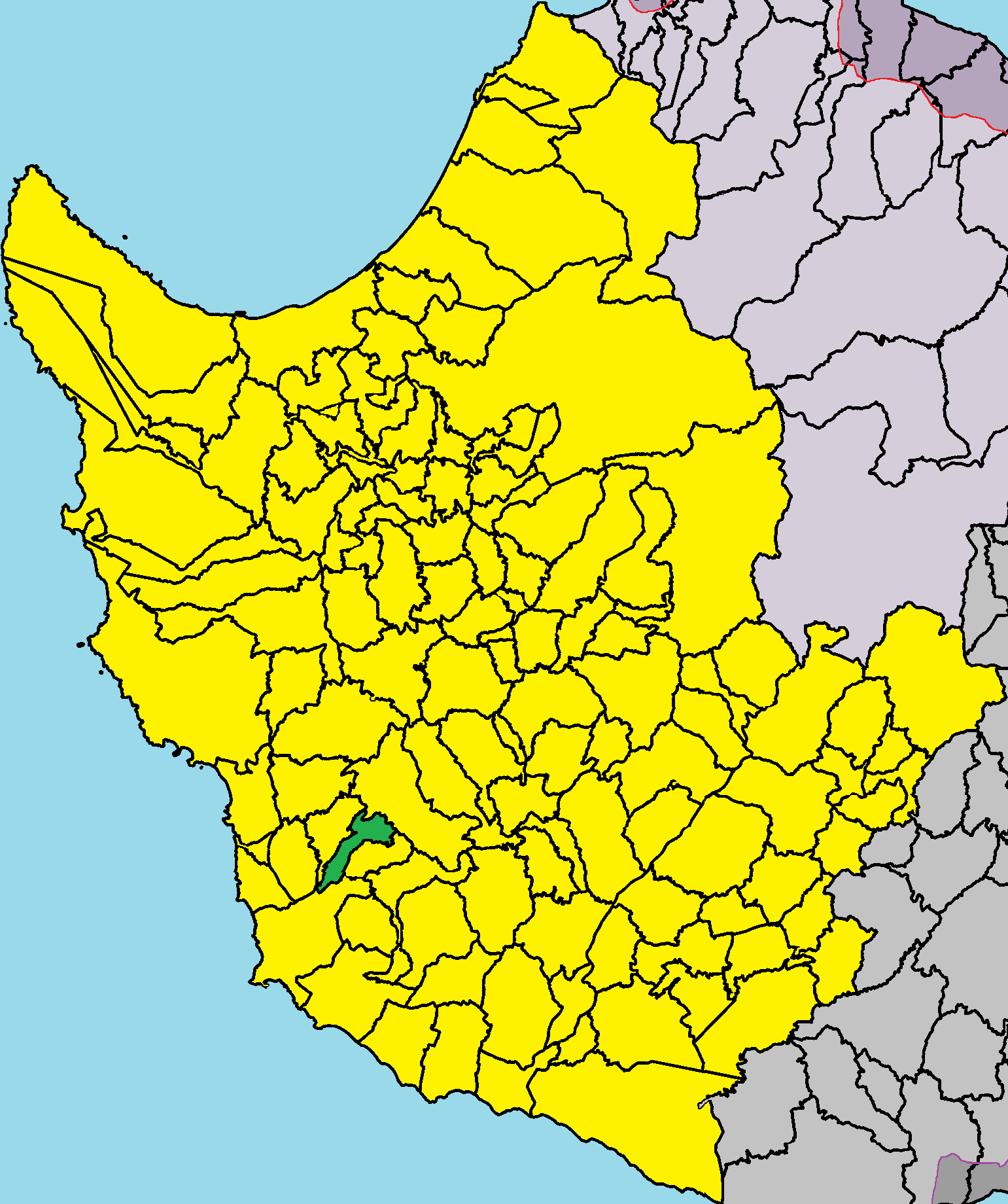 Mesogi in Paphos District.